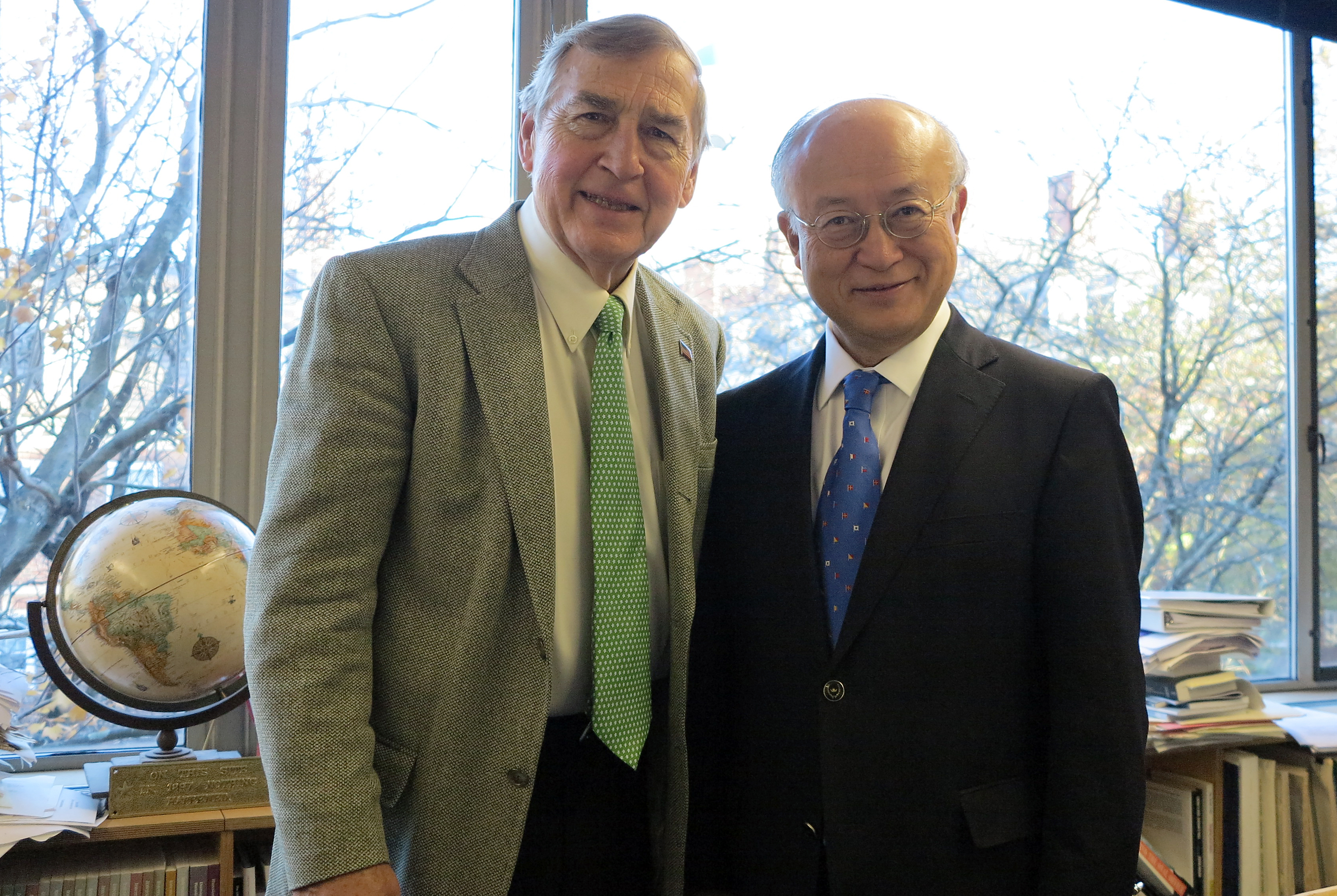 Professor Graham Allison (left), Director of Harvard Kennedy School's Belfer Center for Science and International Affairs greets IAEA Director General Yukiya Amano (right), during his visit to the Center in Boston, USA, 6 November 2013.